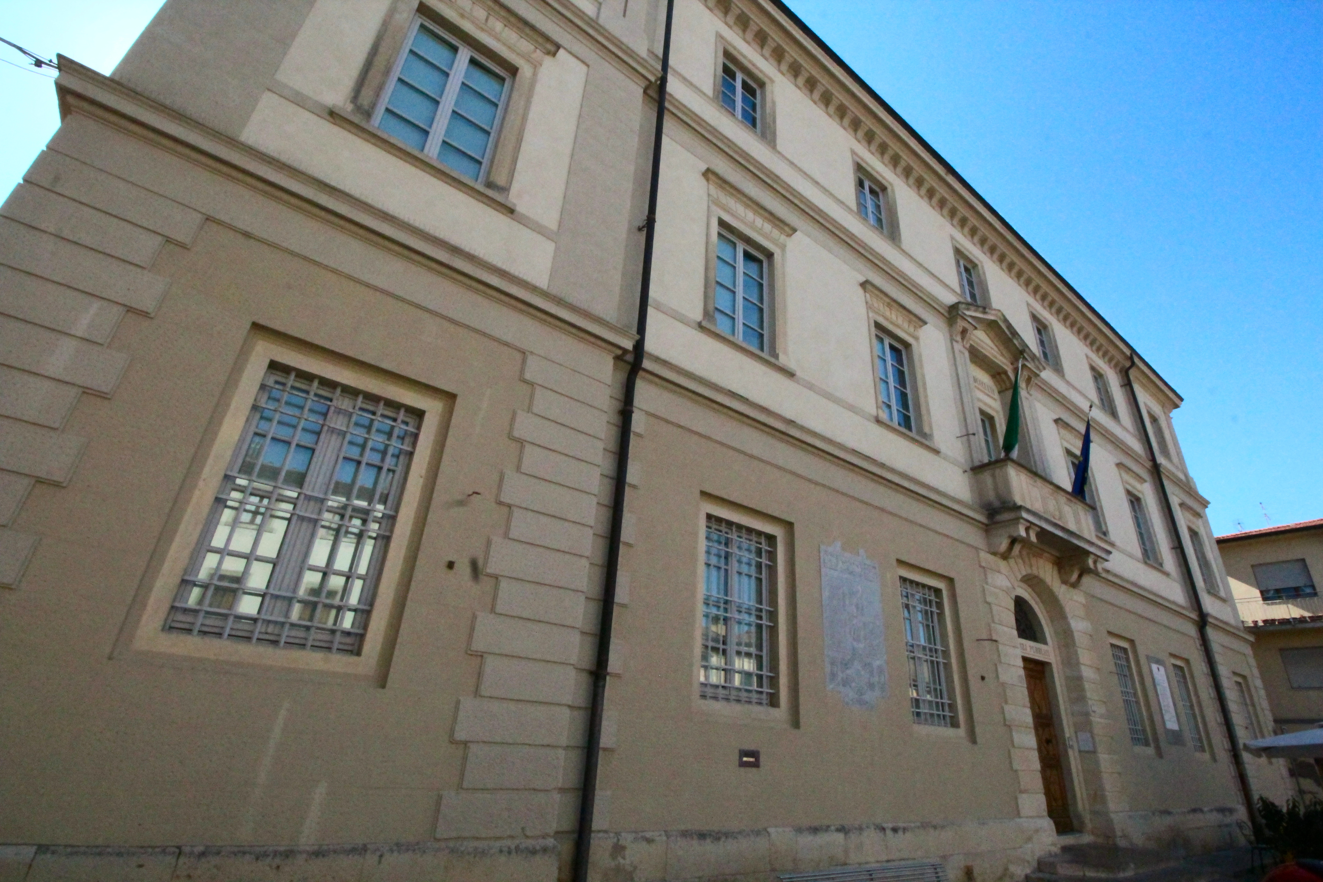 Town hall (Municipio) of Fauglia, Province of Pisa, Tuscany, Italy